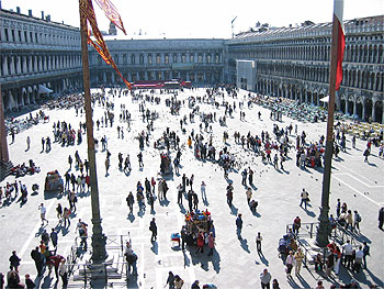 Photograph of the Piazza San Marco in Venice, Italy. Photograph taken in April, 2003 by David Dwiggins.